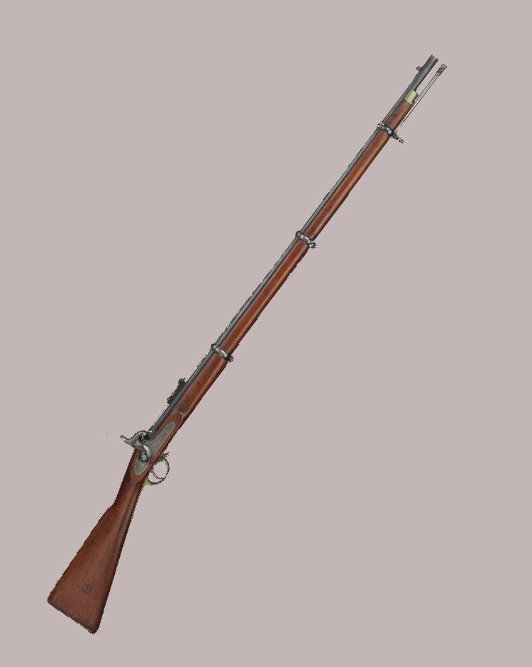 The .577 caliber British Pattern 1853 Rifle-Musket was the second most widely used firearm of the Civil War. A favorite of Confederate soldiers, it was also imported by the Union to keep up with the demand for rifles. Manufactured by the London Armoury Company. Measurements overall, rifle: 54 3/4 in x 2 3/8 in; 139.065 cm x 6.0325 cm